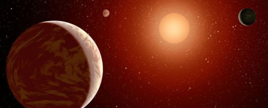 December 17, 2015 Artist concept of a red dwarf star system with three orbiting exoplanets - similar to the Wolf 1061 star system.